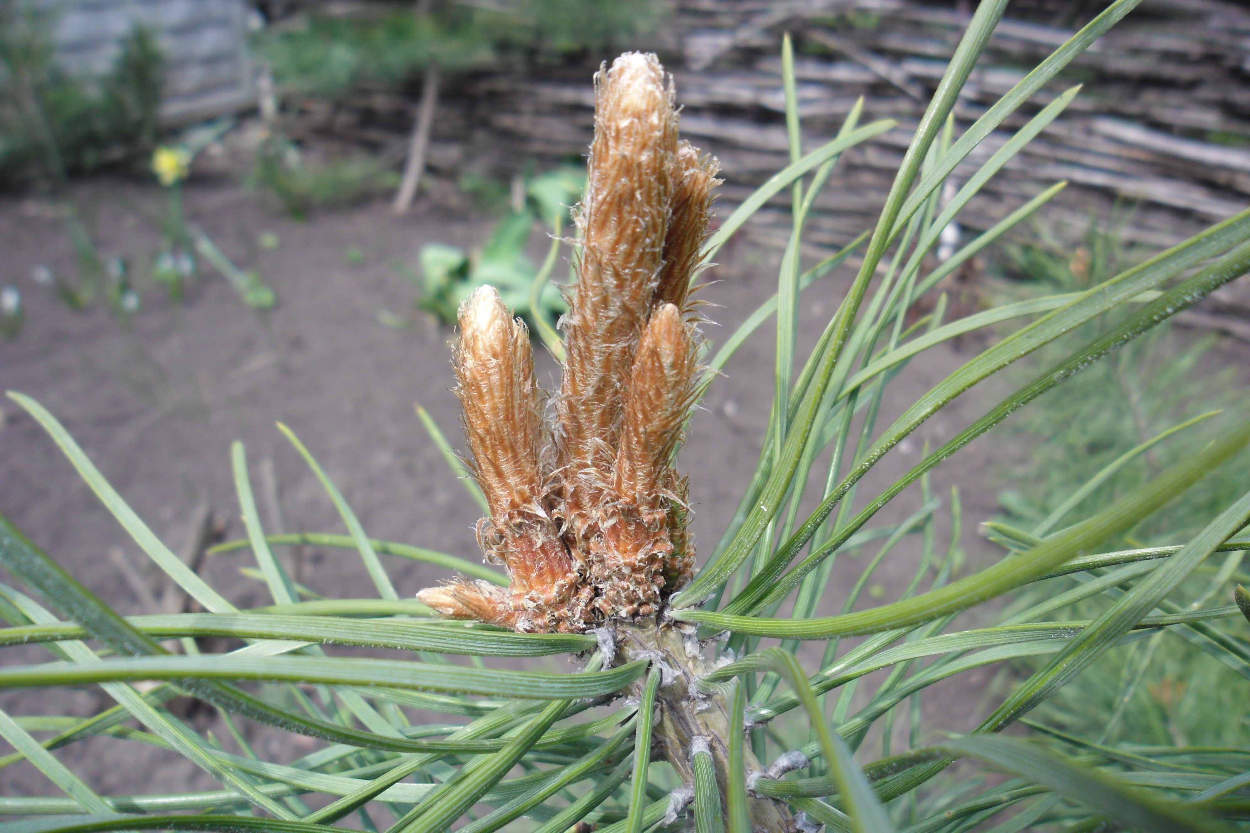 Pinus buds